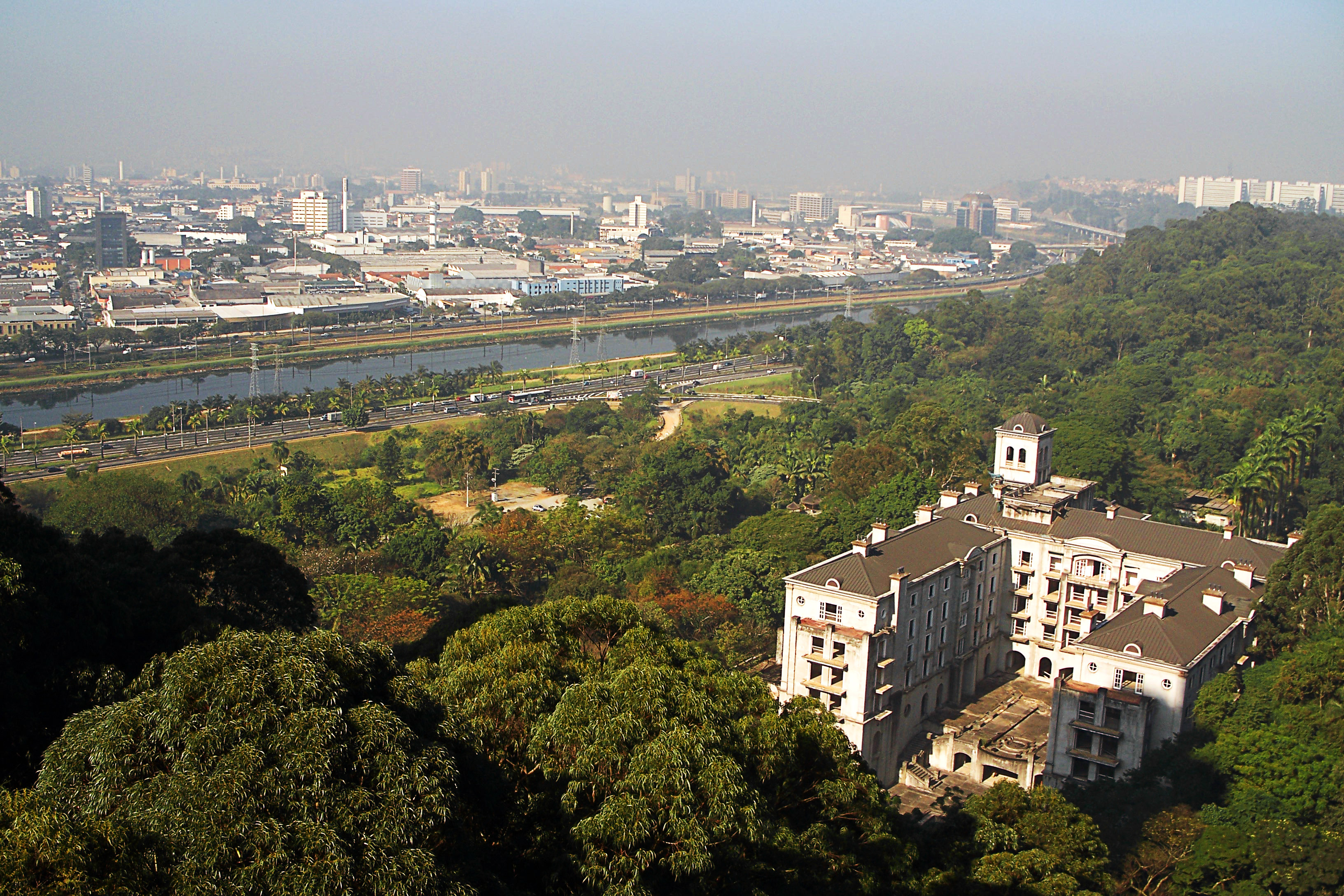 View of Burle Marx Park, in São Paulo, Brazil.